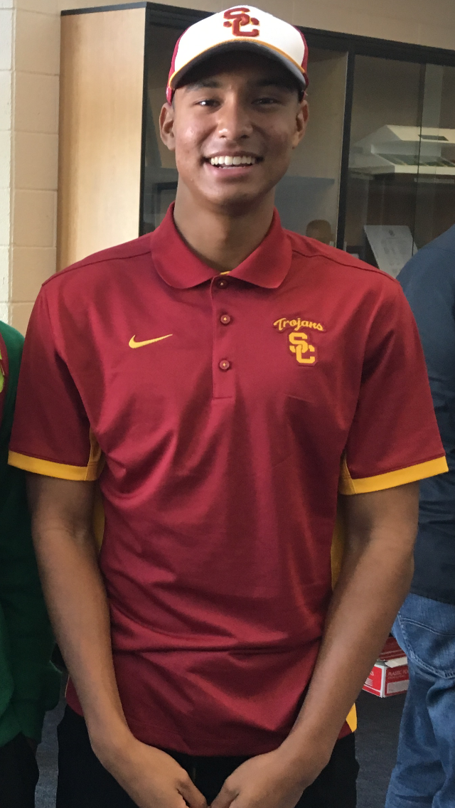 Michael Norman at Vista Murrieta High School's Early Signing Ceremony in November 2015.